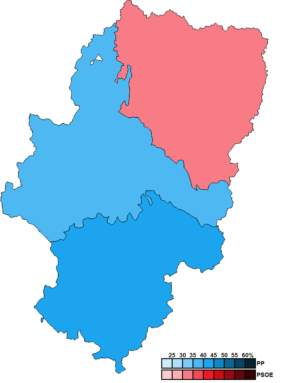 Provincial results for the 1999 Aragonese regional election.